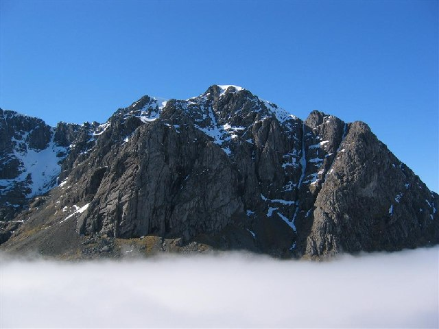 Carn Dearg (1221 m), the north-west top of Ben Nevis, above a cloud inversion